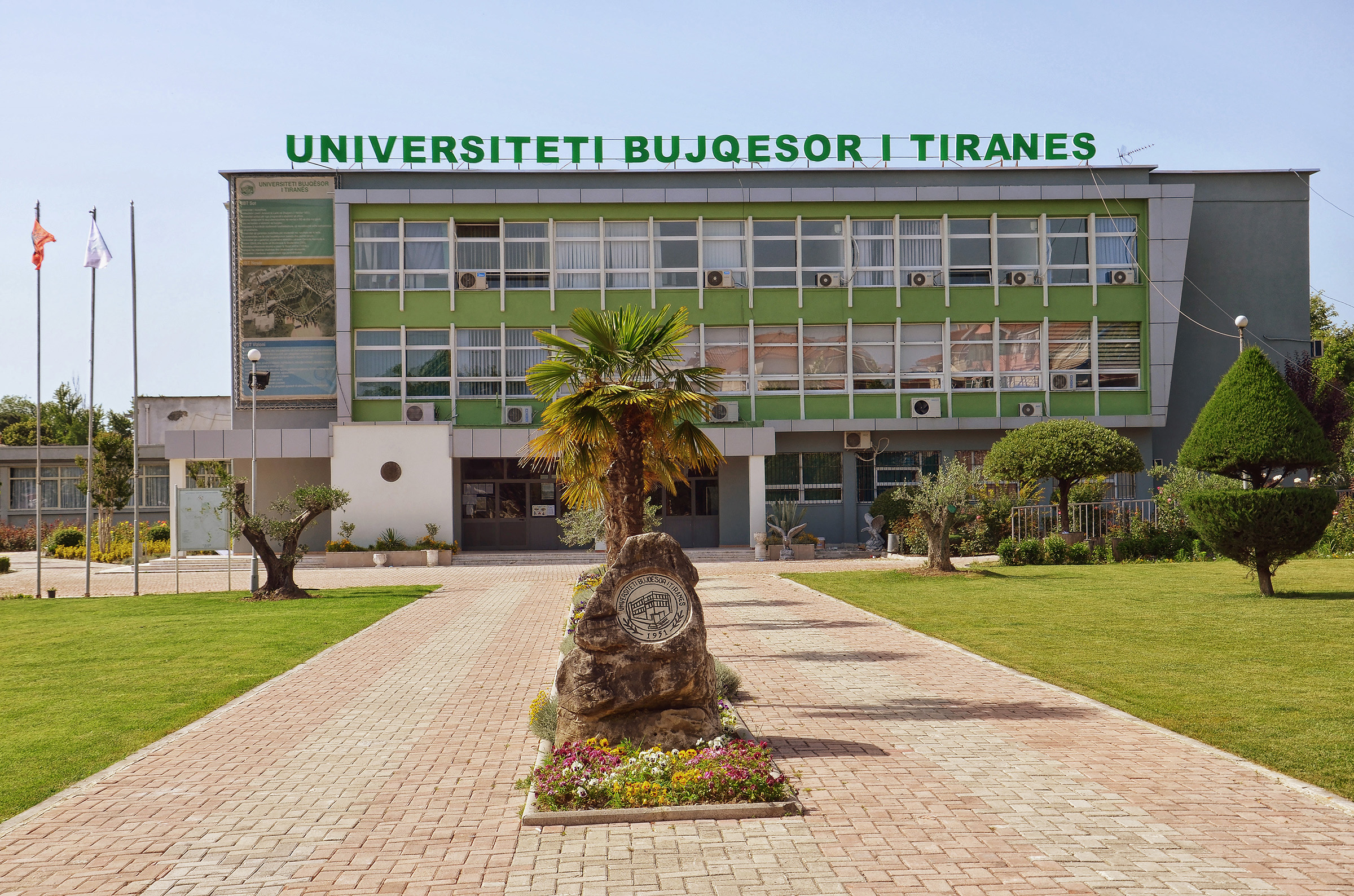 The central building of the Agricultural University of Tirana in Kamëz, Albania